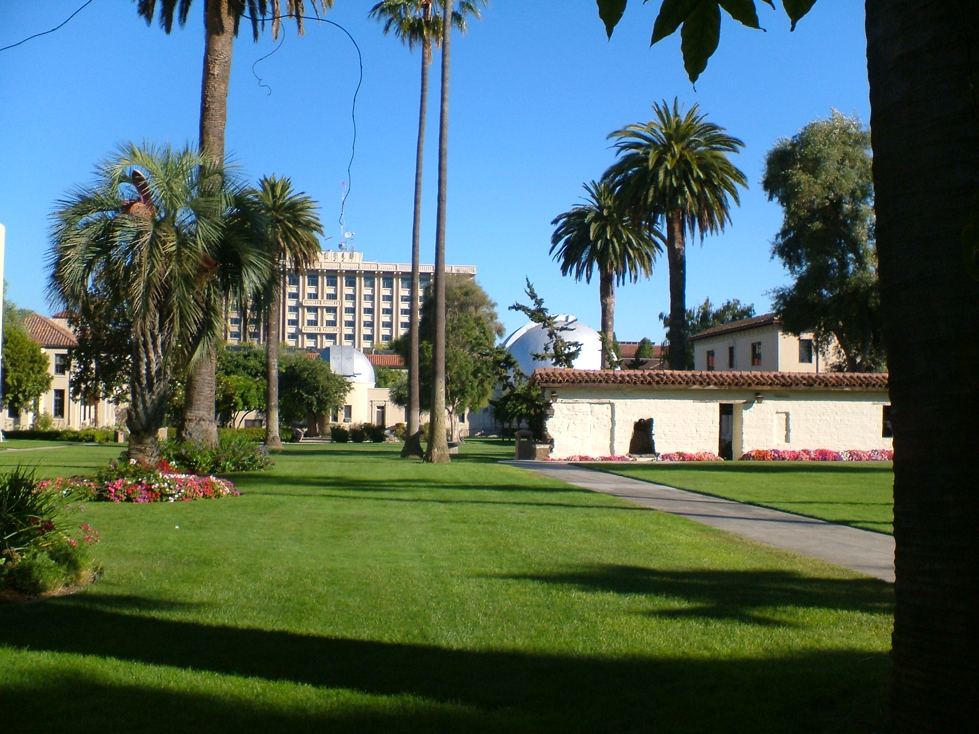 Image of Swig Hall and Mission Gardens